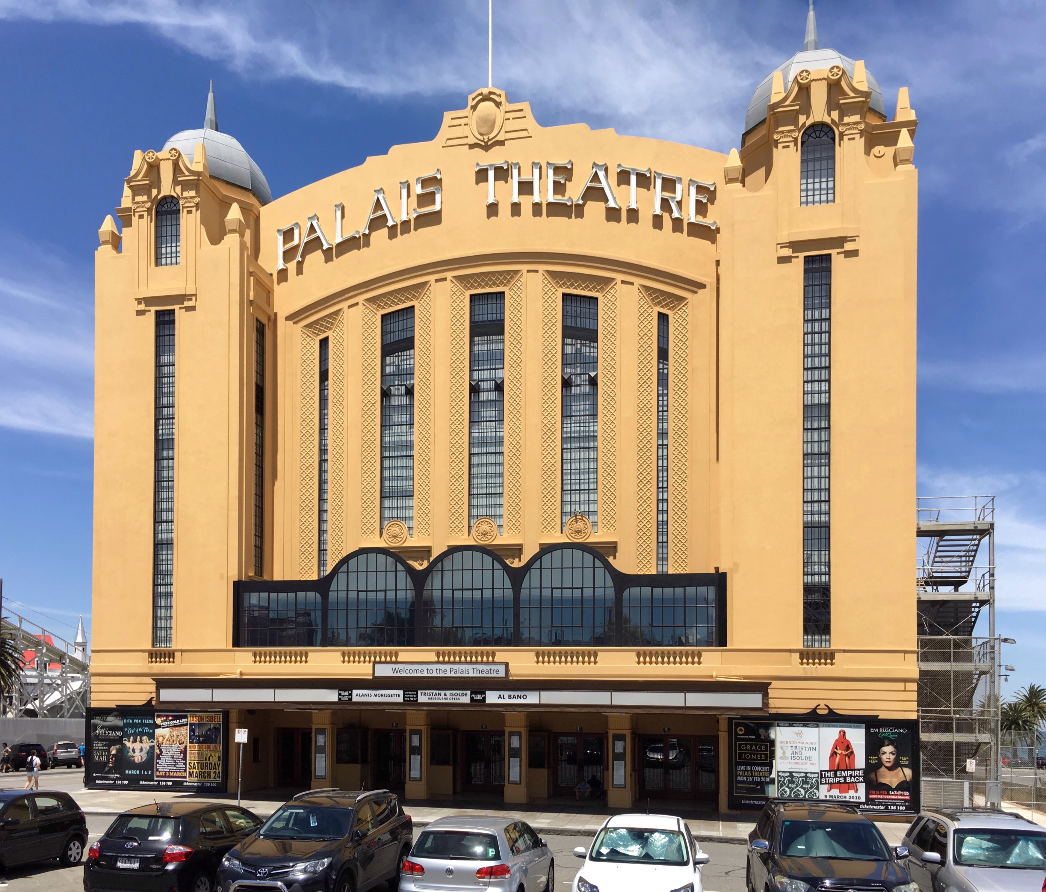 Photograph of the Palais Theatre St Kilda shortly after restoration of original colours and construction of new 'winter garden' balcony extension.